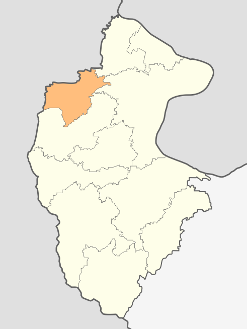 Map of Boynitsa municipality, Vidin Province